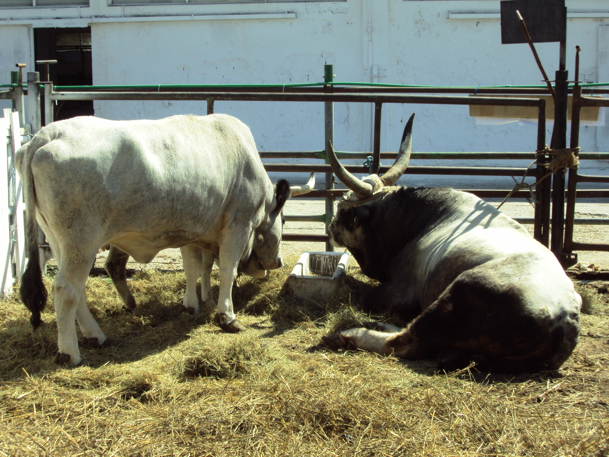 Croatian breed of cattle: Slavonsko-srijemski podolac - Agriculture Fair in Bjelovar, Croatia